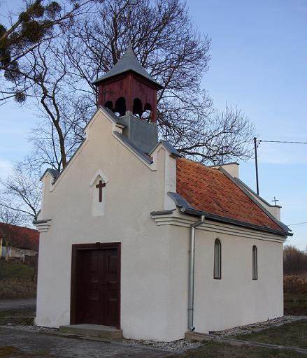 Chapel in Markajmy near Lidzbark Warminski